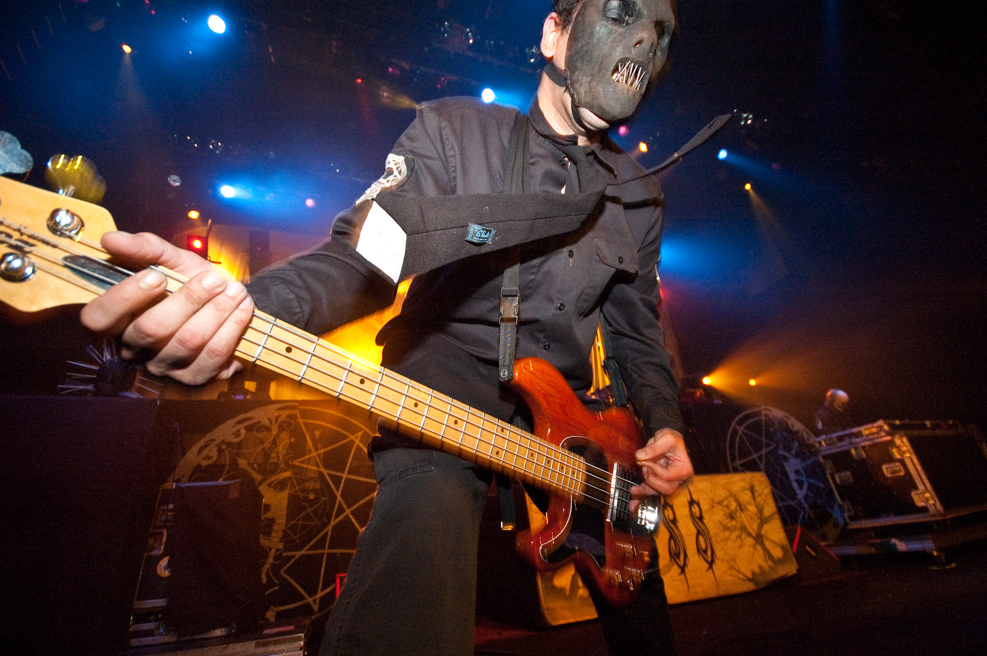 Bass guitarist Paul Gray performing in metal band Slipknot in 2005.